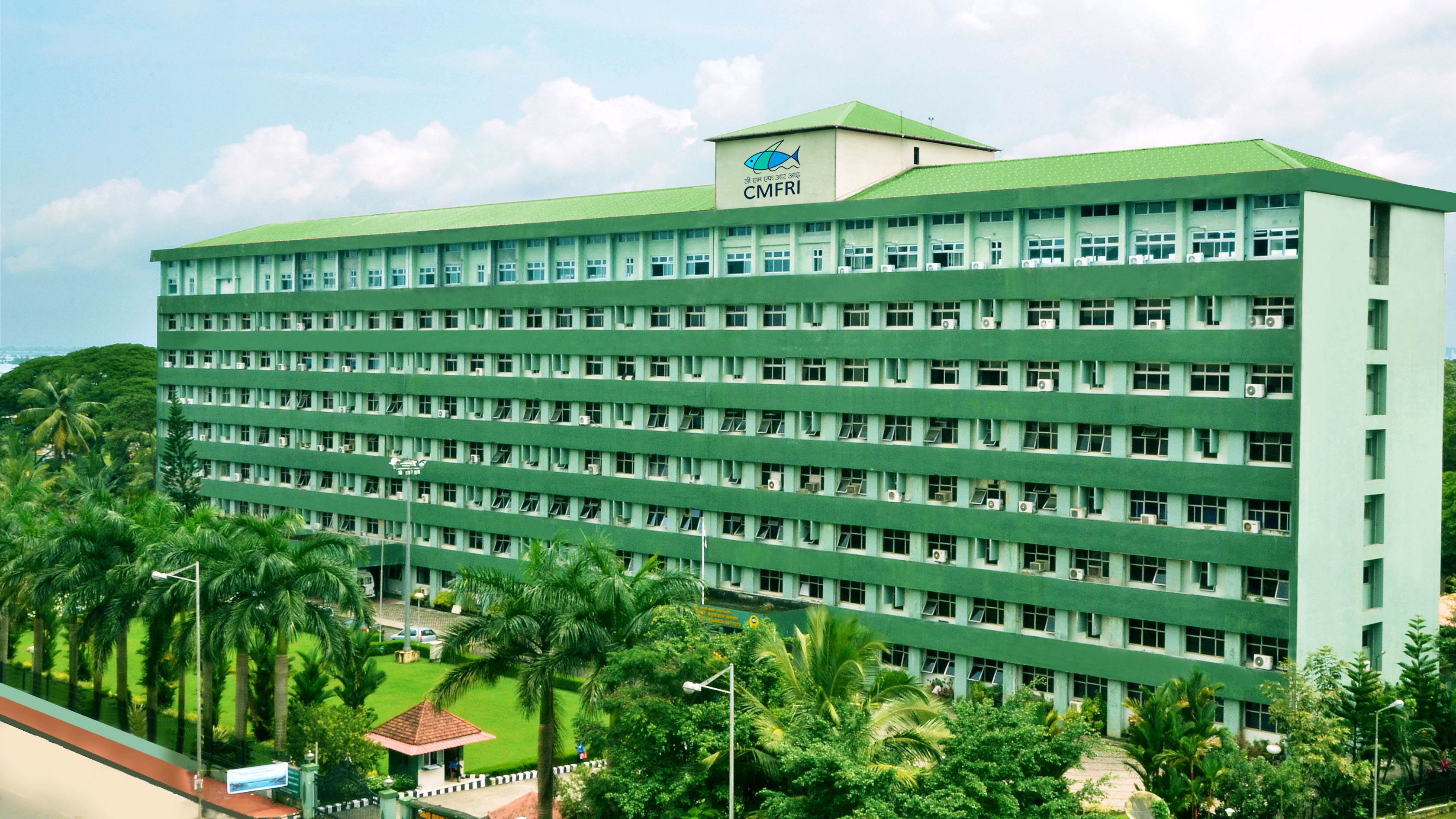 The Central Marine Fisheries Research Institute was established by Government of India on February 3rd 1947 under the Ministry of Agriculture and Farmers Welfare and later it joined the ICAR family in 1967.